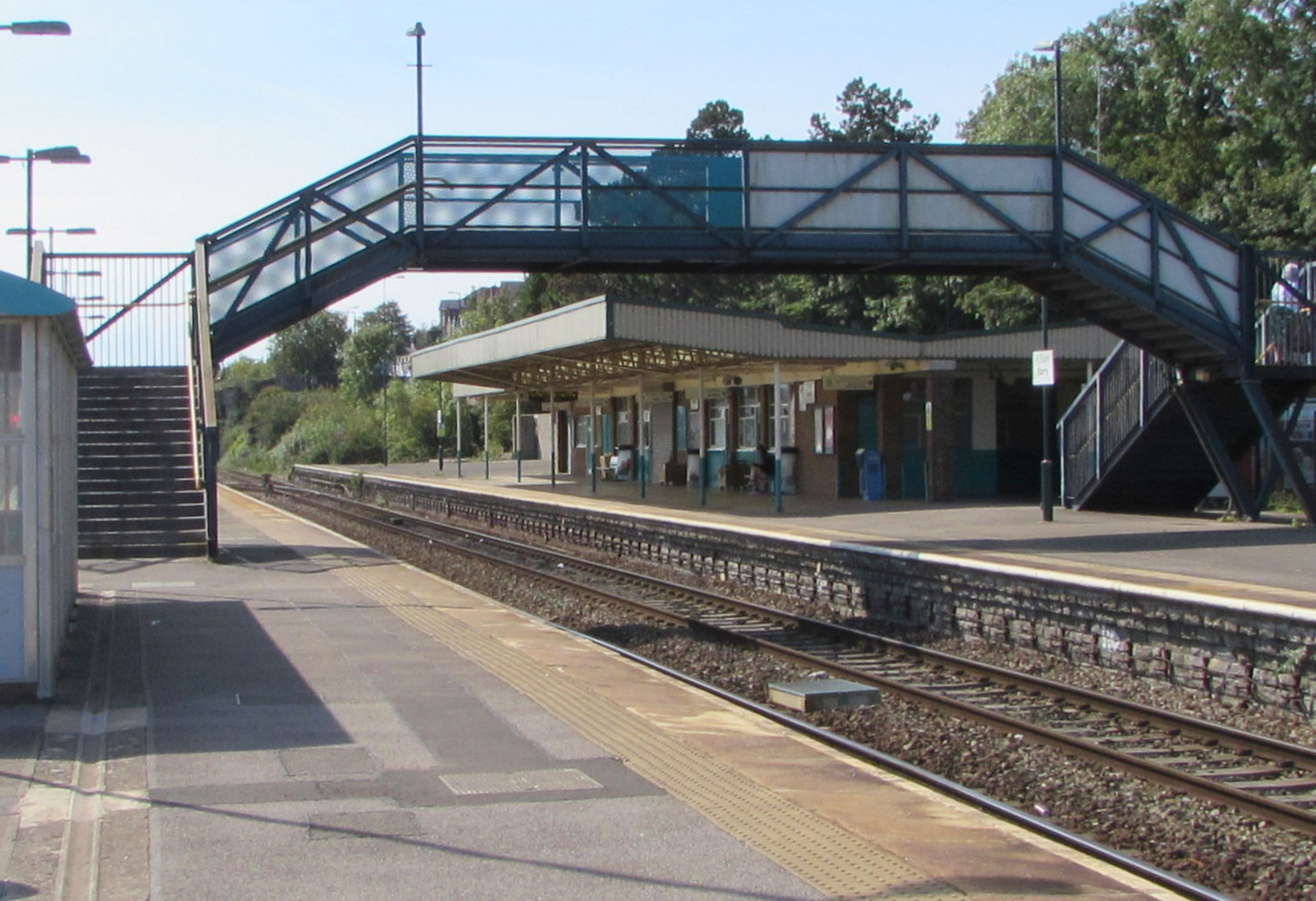 Barry railway station footbridge